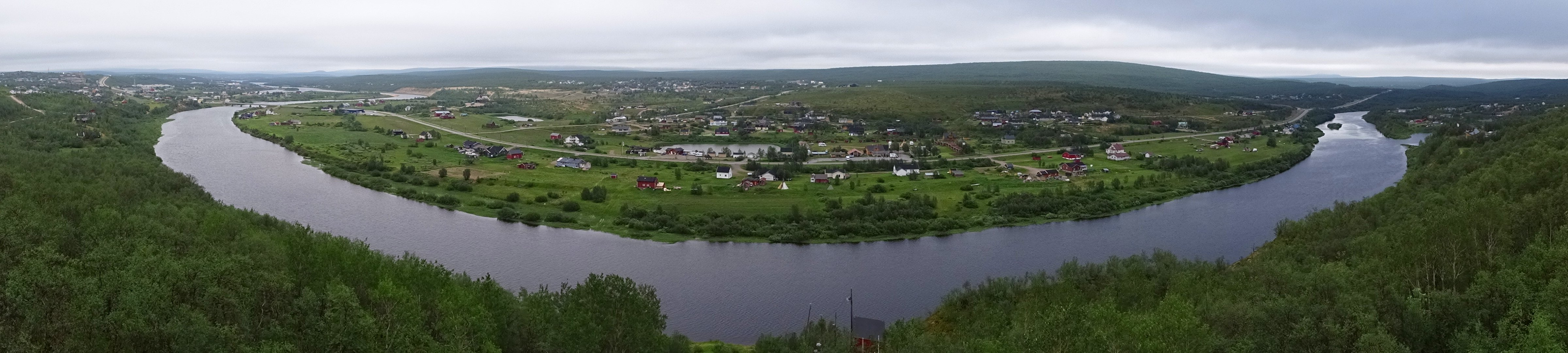 Panorama as seen from the ski jump hill south of the town center in Kautokeino.